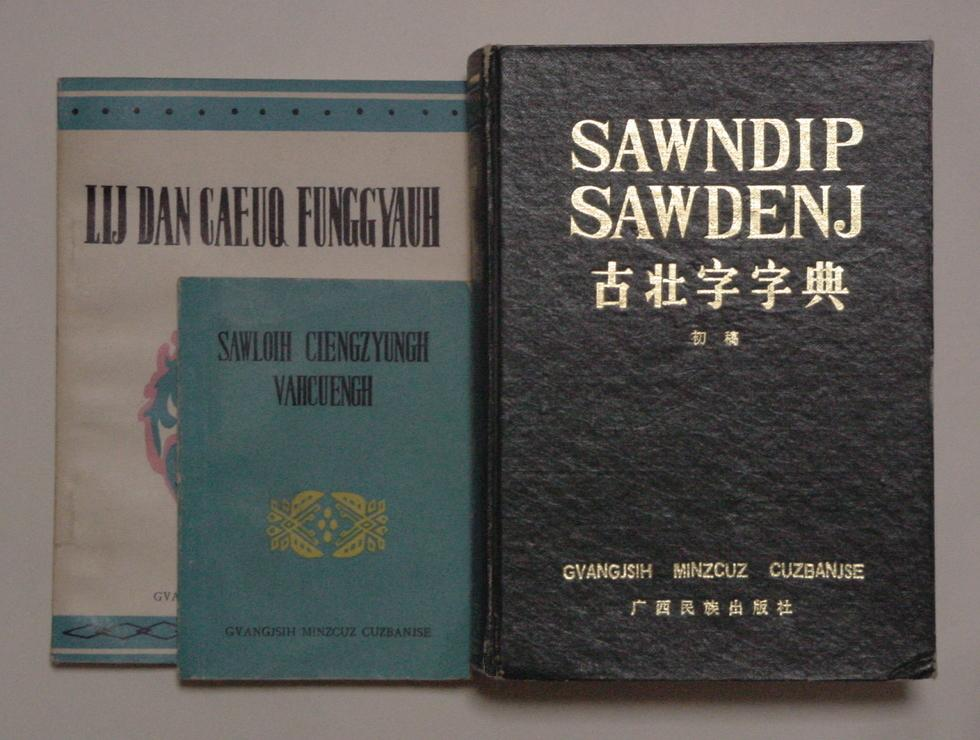 Books of Zhuang language published in Guangxi.